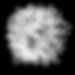 Cutting Through Steel Tutorial, Image-Texture for smokeparticles